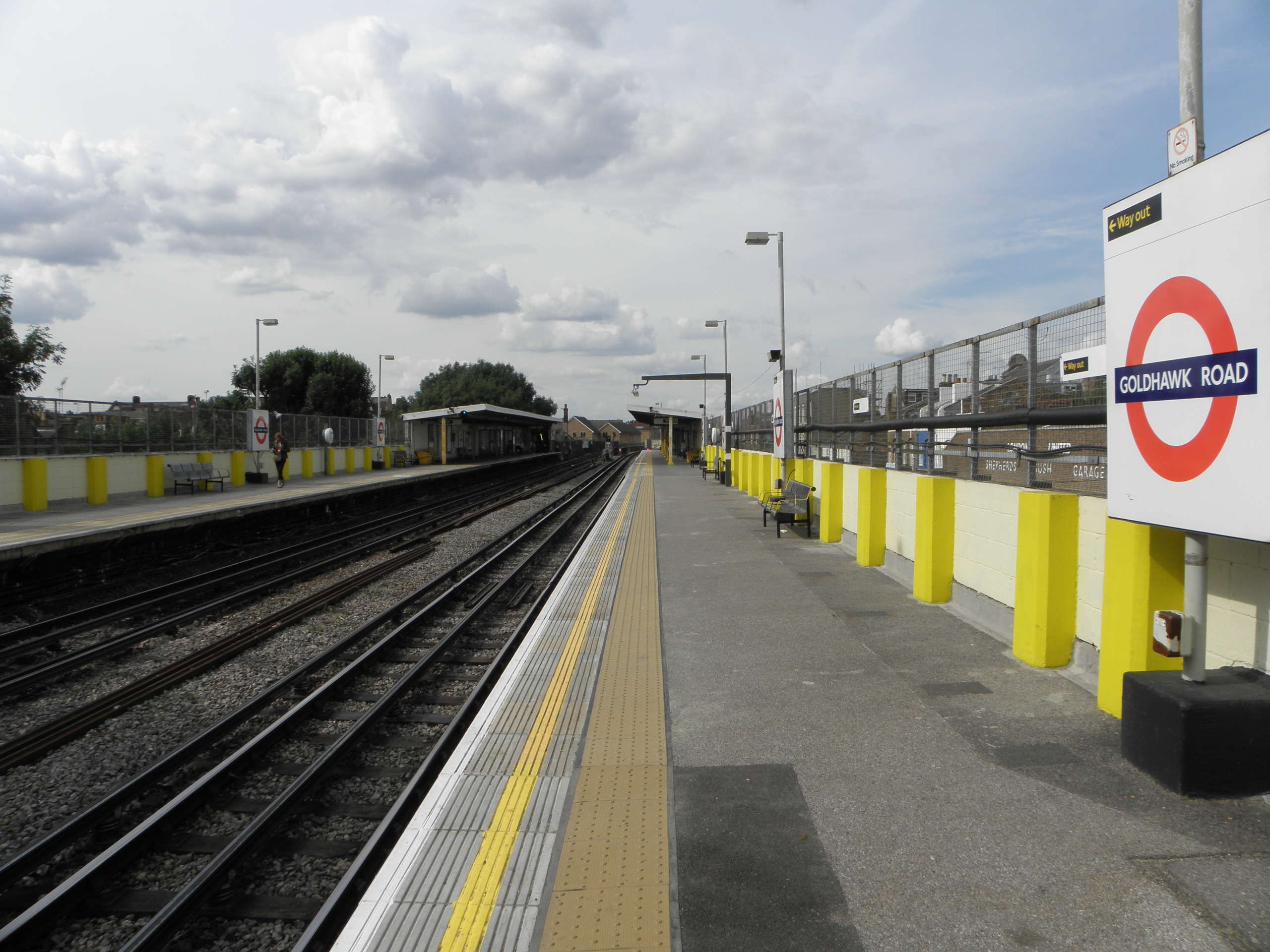 Goldhawk Road tube station looking eastbound (actually north here) in 2012.